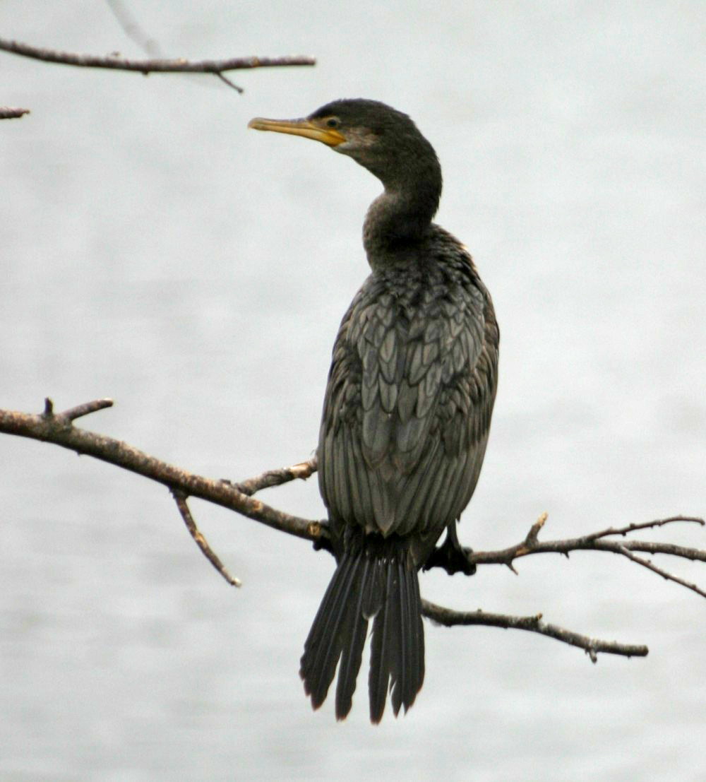 Phalacrocorax brasilianus I, Tim Whitehouse, photographed this image on 1/23/2006.